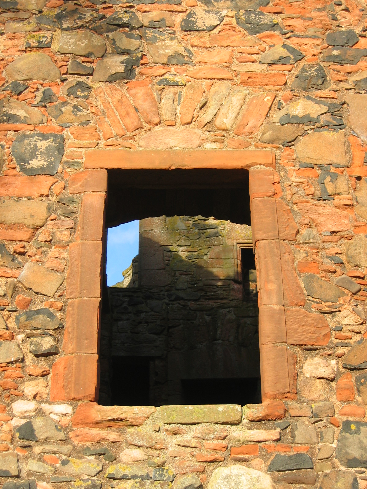 Example of a relieving or discharging arch, Greenknowe Tower, Scottish Borders, Scotland.